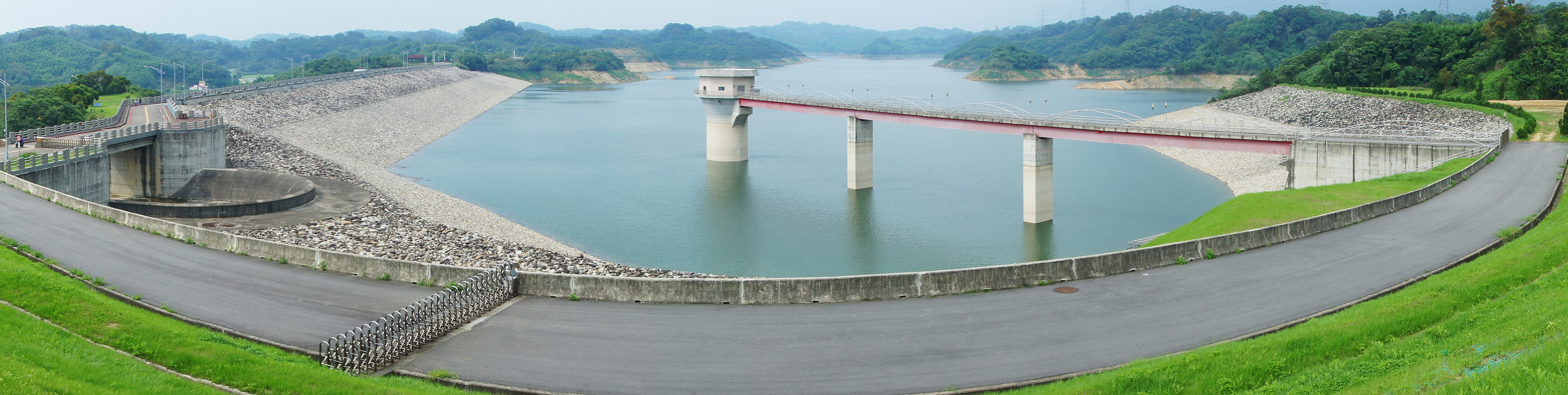 Baoshan II Reservoir, Hsinchu County, Taiwan